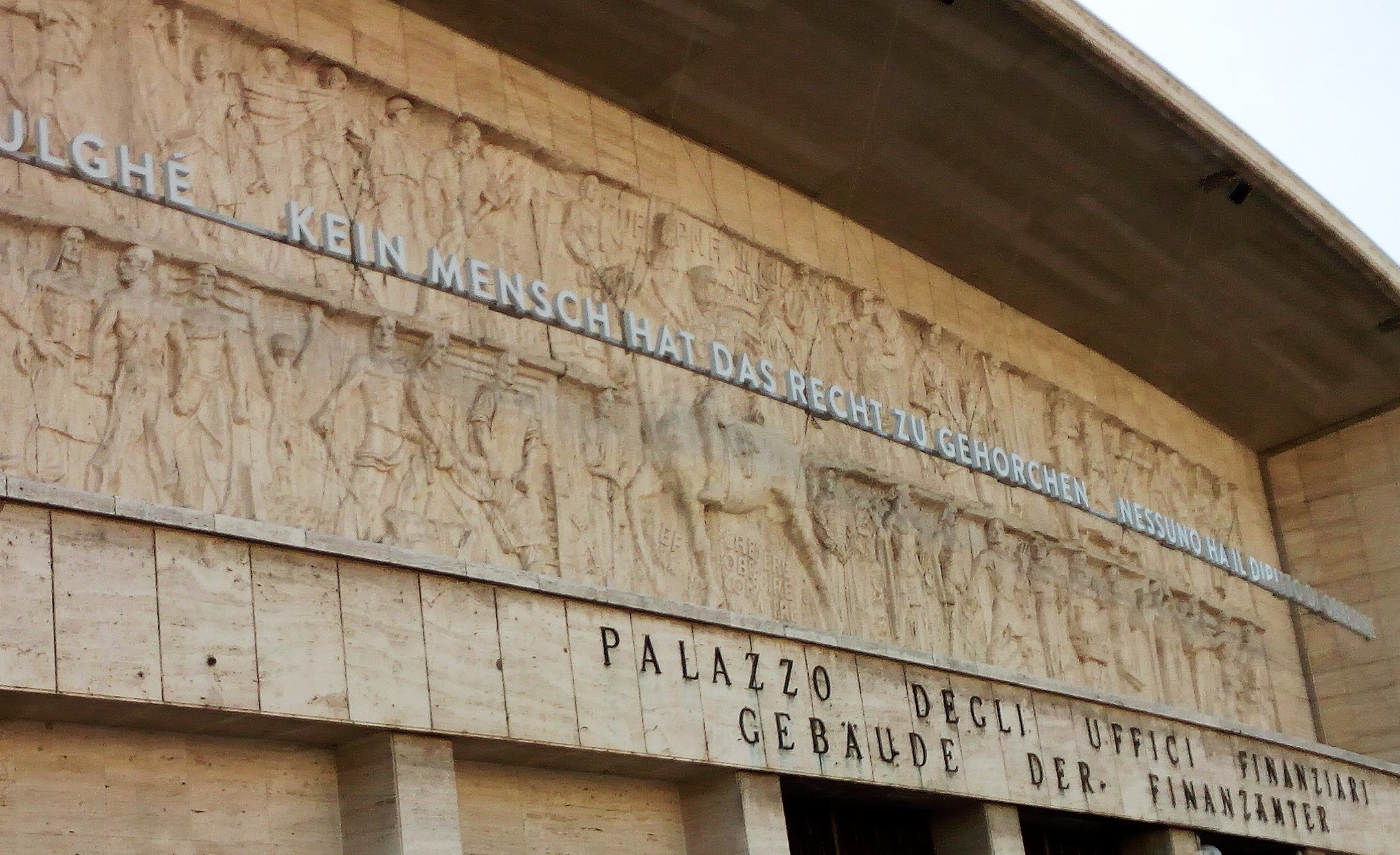 Hannah Arendt's quote attached to the former Casa del Fascio (Bolzano)